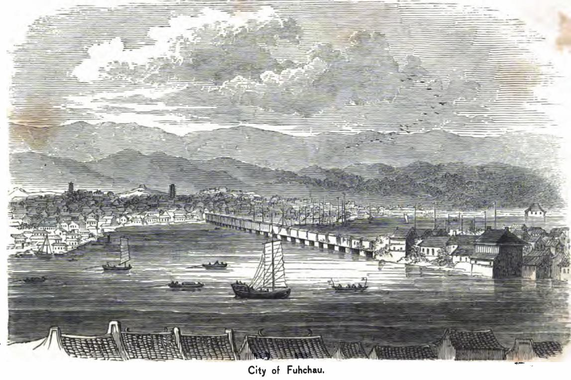 City of Fuzhou, ca. 1850